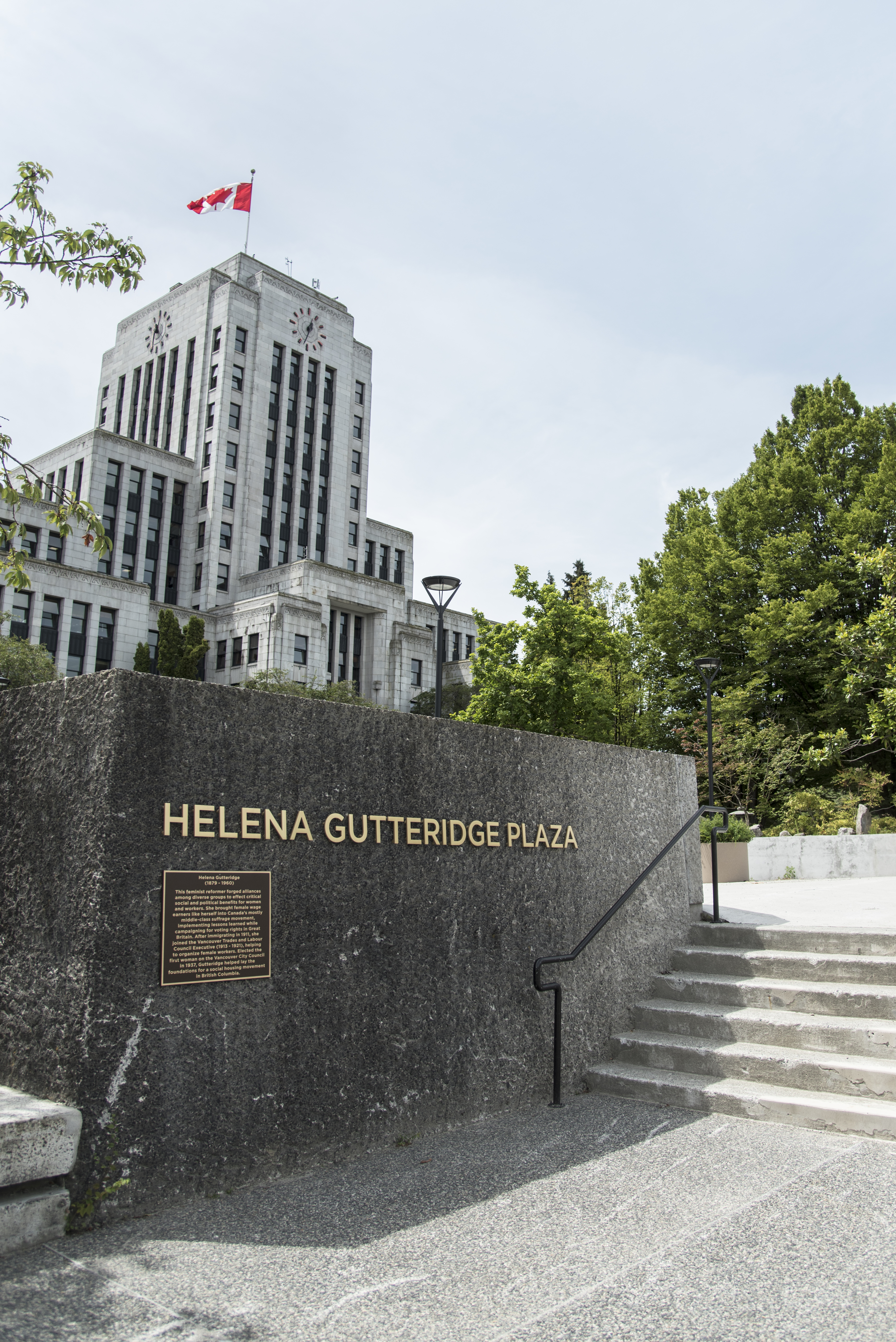 The Vancouver City Hall seen from the steps leading to Helena Gutteridge Plaza, Yukon Street.